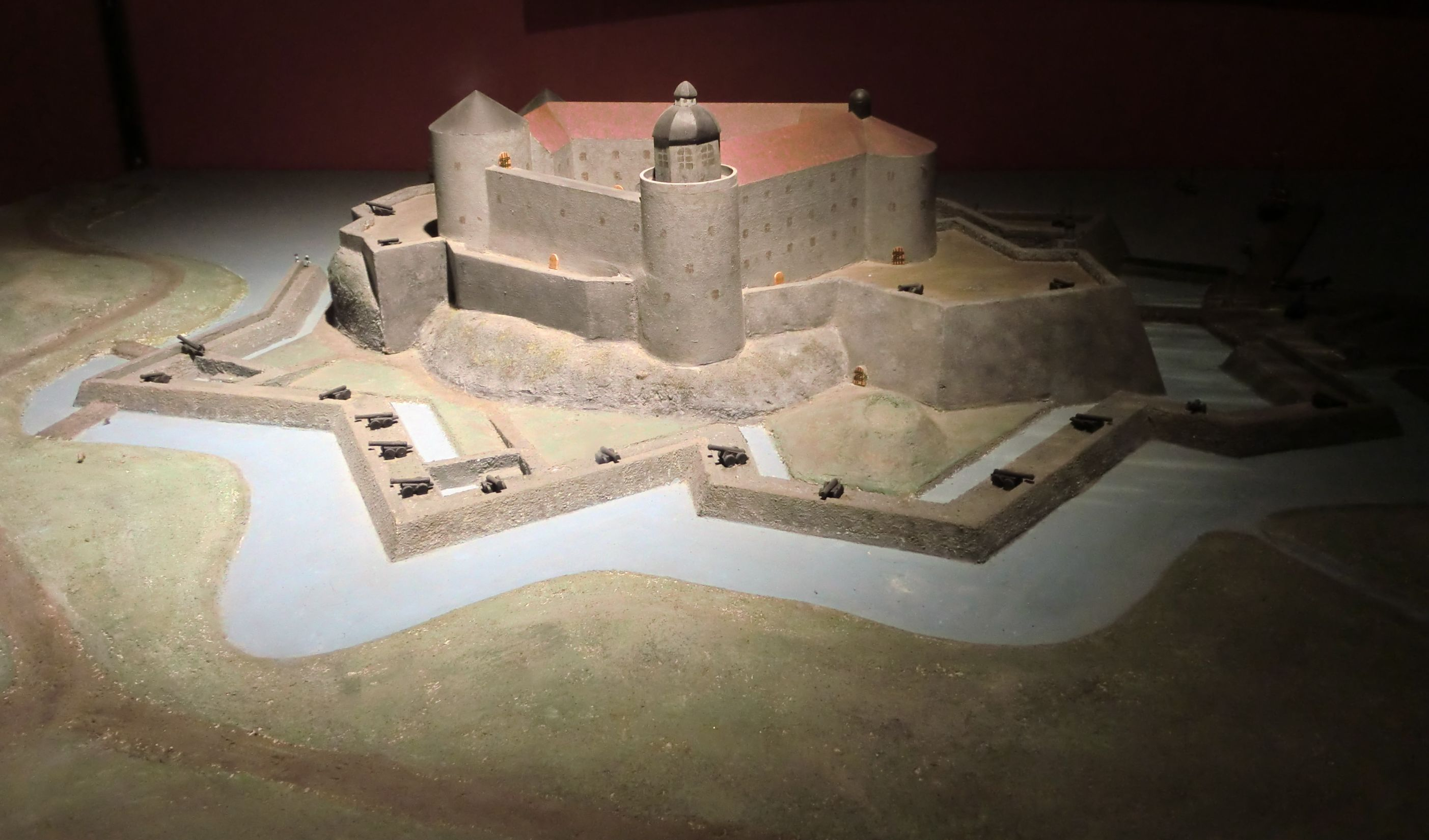 Älvsborg Castle, view form south, around 1650. Model from Göteborg City Museum.